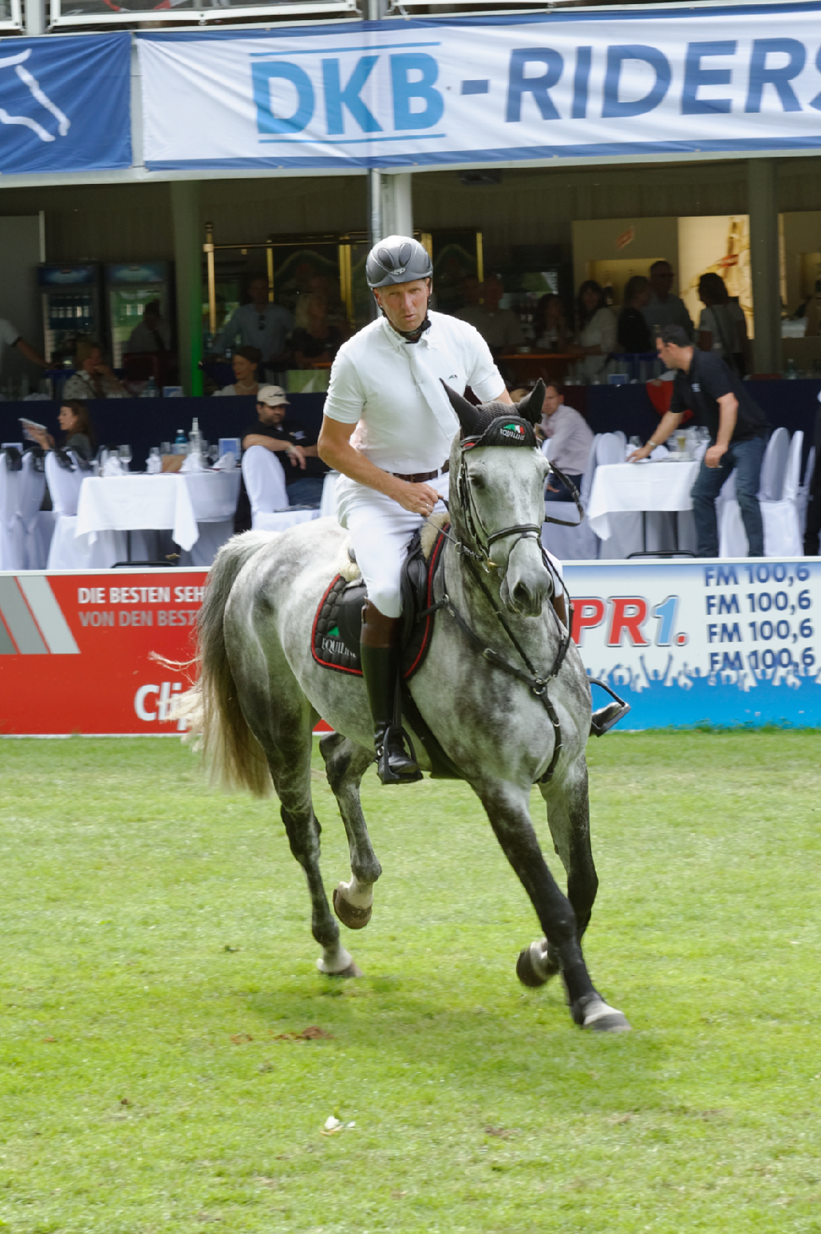 Internationales Pfingstturnier Wiesbaden 2014 The making of this document was supported by the Community-Budget of Wikimedia Germany.